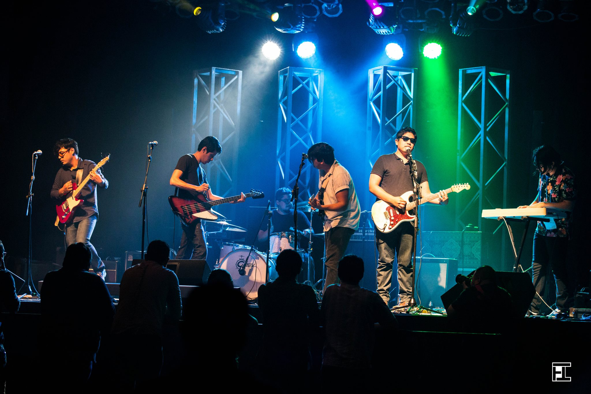 Dandy Heat playing live at Cine El Rey